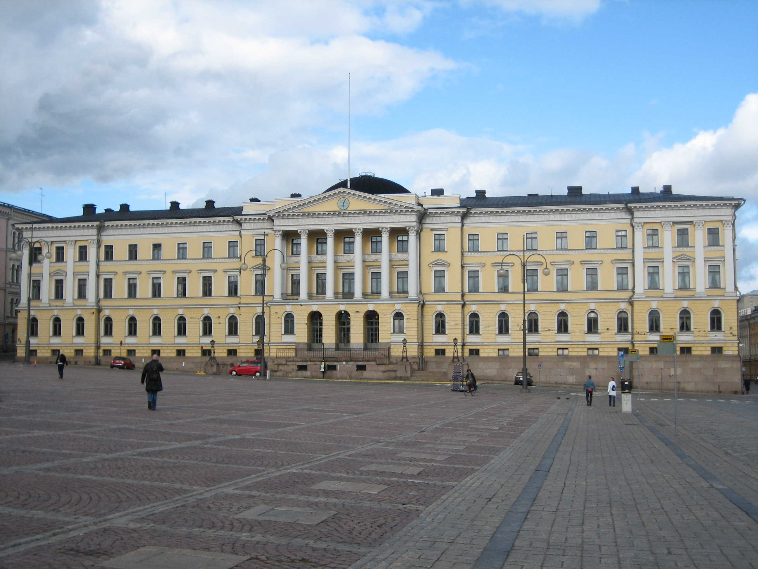 The Government Palace (originally Senate Building) in Helsinki, Finland. The building represents new classical Empire style. The building was designed by Carl Ludvig Engel and built in 1818–1822.